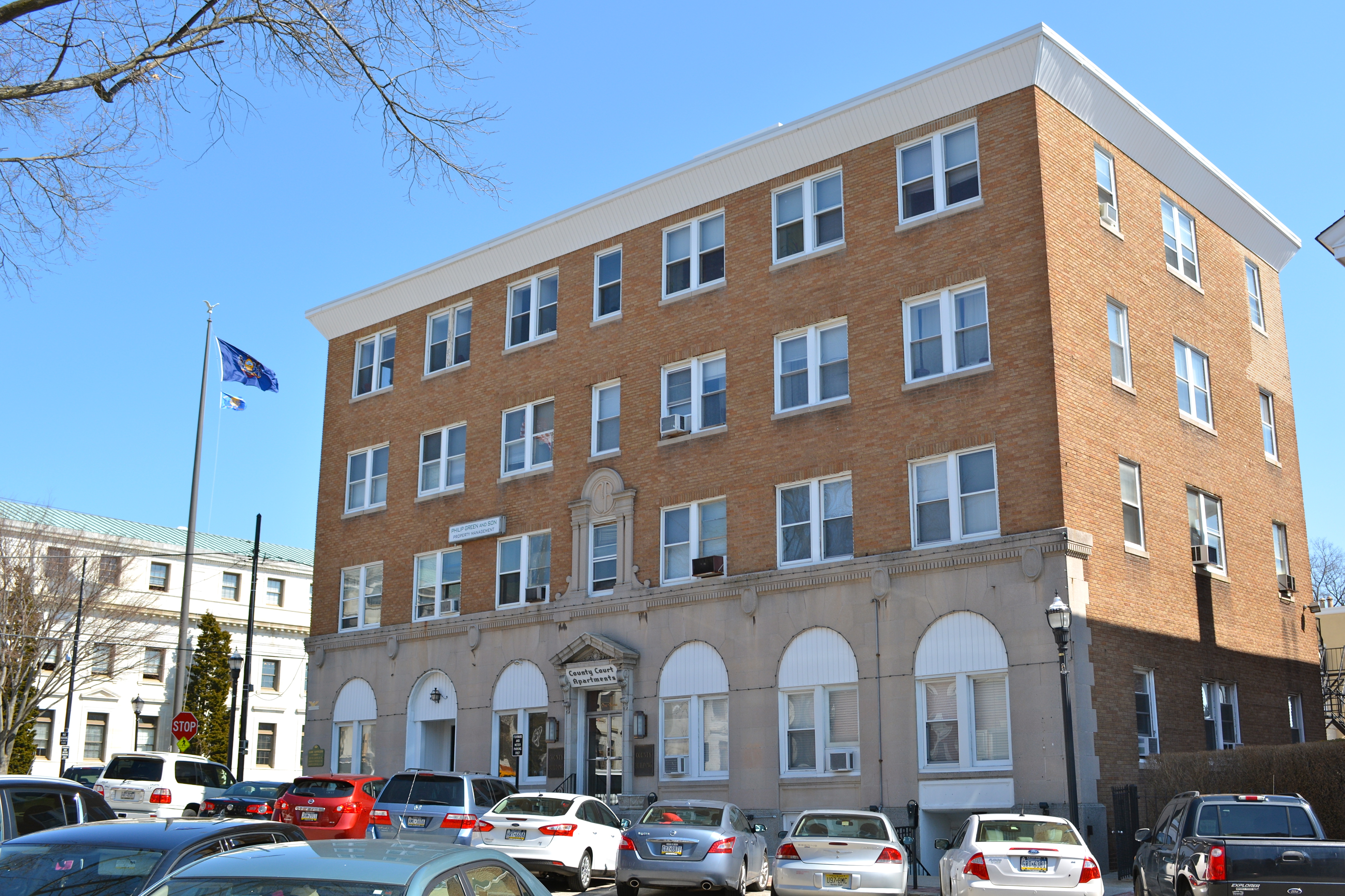 Building at One Veteran's Square, Media, Pennsylvania, looking northeast with the Delaware County Courthouse in the background. Building now known as County Court Apartments. This was the site of the March 8, 1971 break in of the local FBI office that resulted in the exposure of the FBI's CoIntelPro program